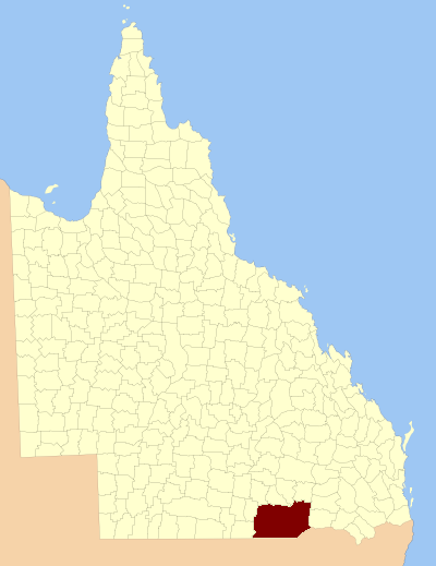 Location of the county in Queensland, one of the Cadastral divisions of Queensland